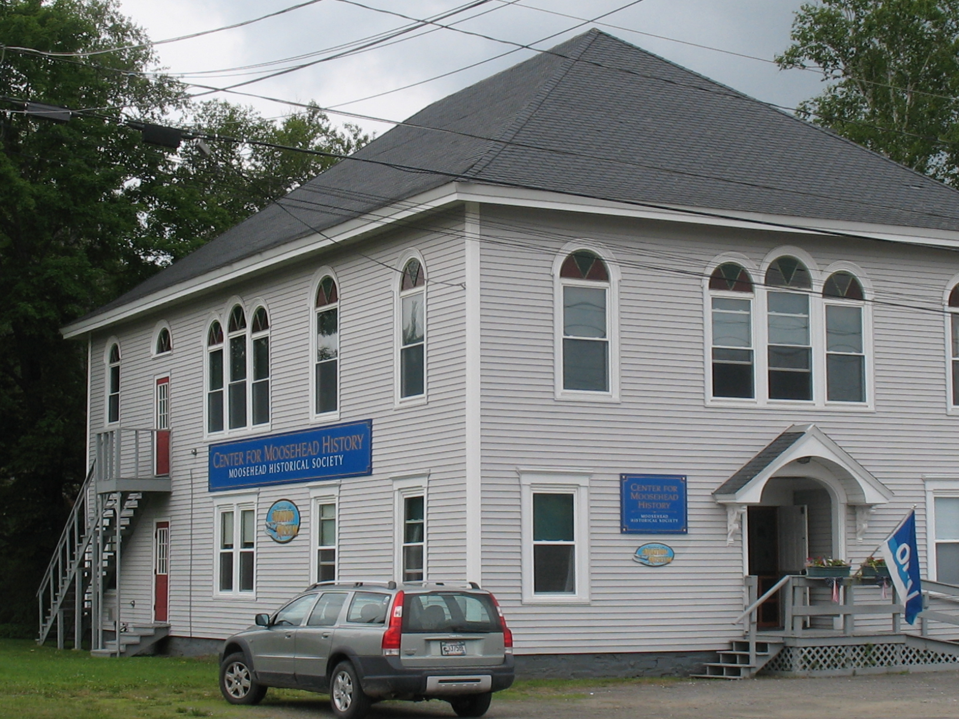 Center for Moosehead History. Moosehead Historical Society, Greenville, Moosehead Lake, Maine